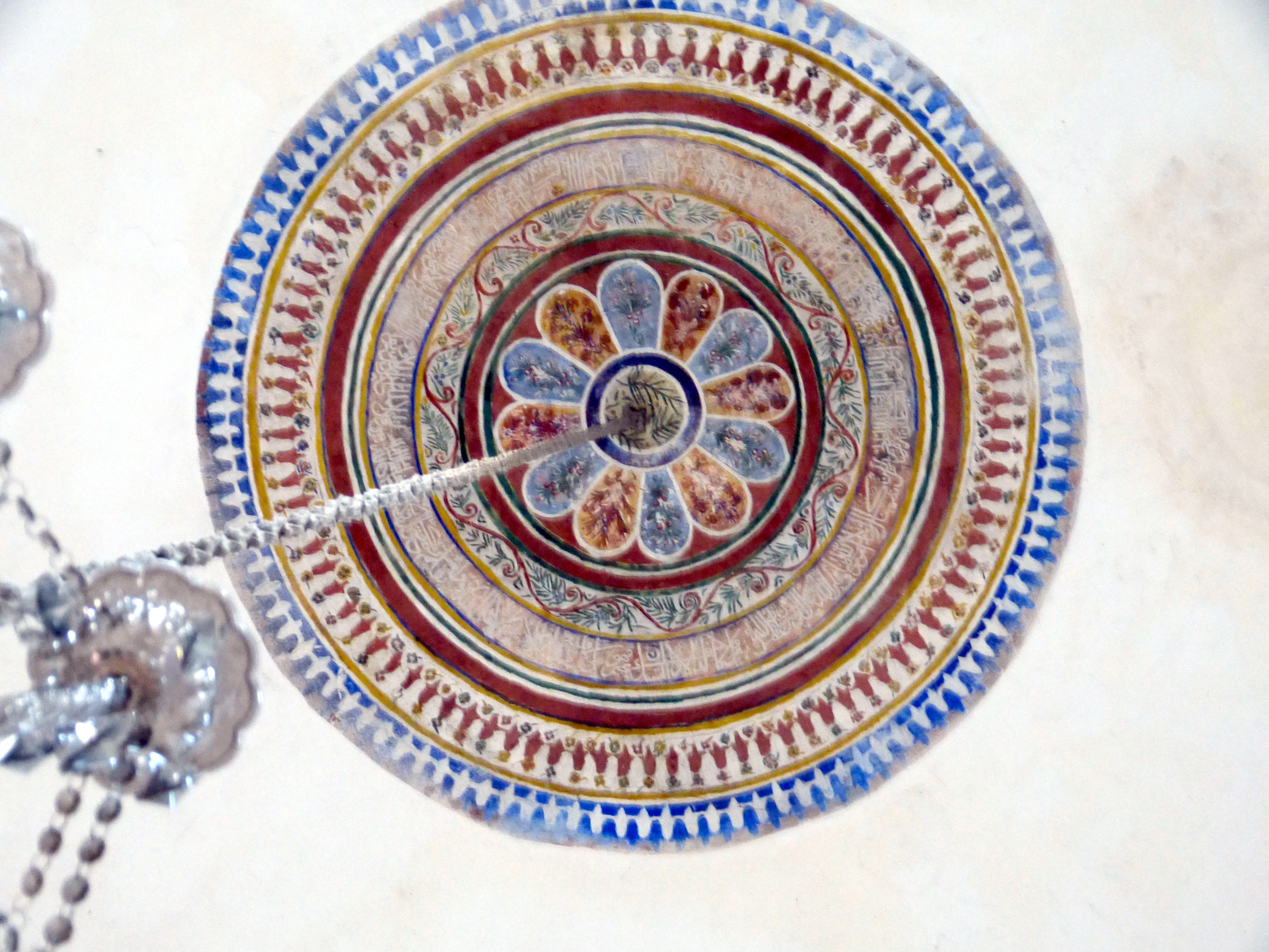 Gjirokastër ( Albania ). Bazar Mosque ( 1757 ) - Dome Interior.